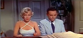 Cropped screenshot of Marilyn Monroe and Tom Ewell from the film The Seven Year Itch